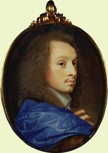 Hugh May (1621-1684). Watercolour on vellum laid on card with gessoed back. Oval: 6.7 x 5.3 cm. Purchased by HM The Queen for the Royal Collection, Sotheby's, 3 July 1958 (lot 6). Signed and dated in gold on the right: S C / 1653